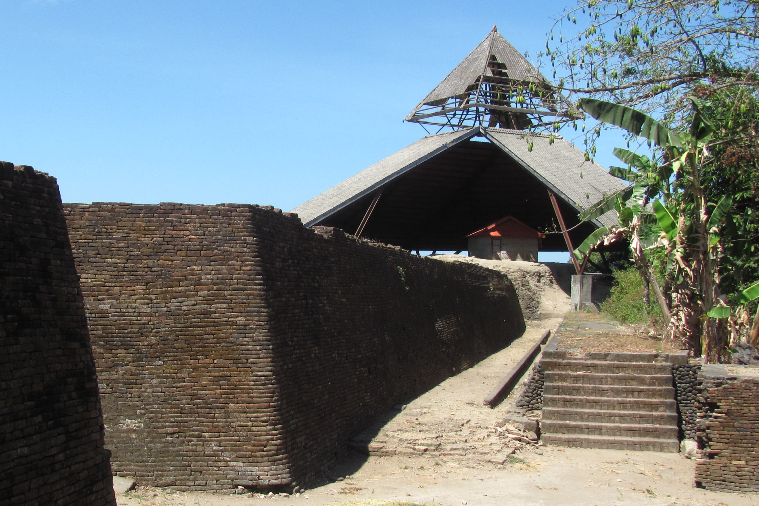 Fort Samba Opu, Sungguminasa, Sulawesi, Indonesia